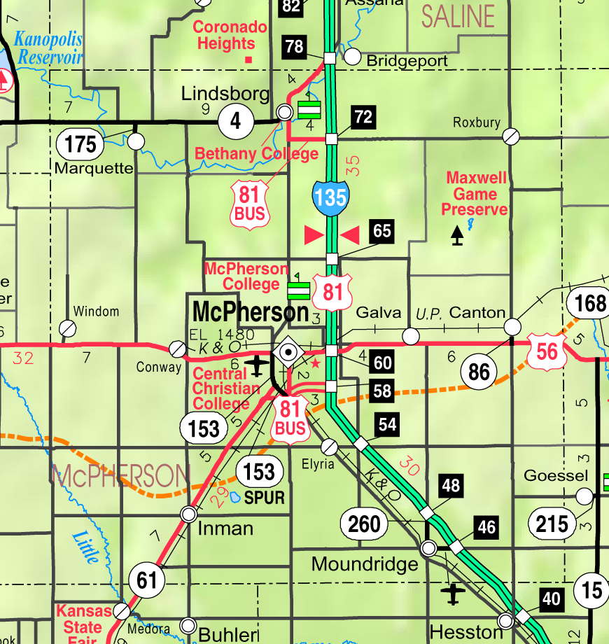 This map of McPherson County, Kansas, USA, is copied at a resolution of 300 pixels/inch from the original PDF file.